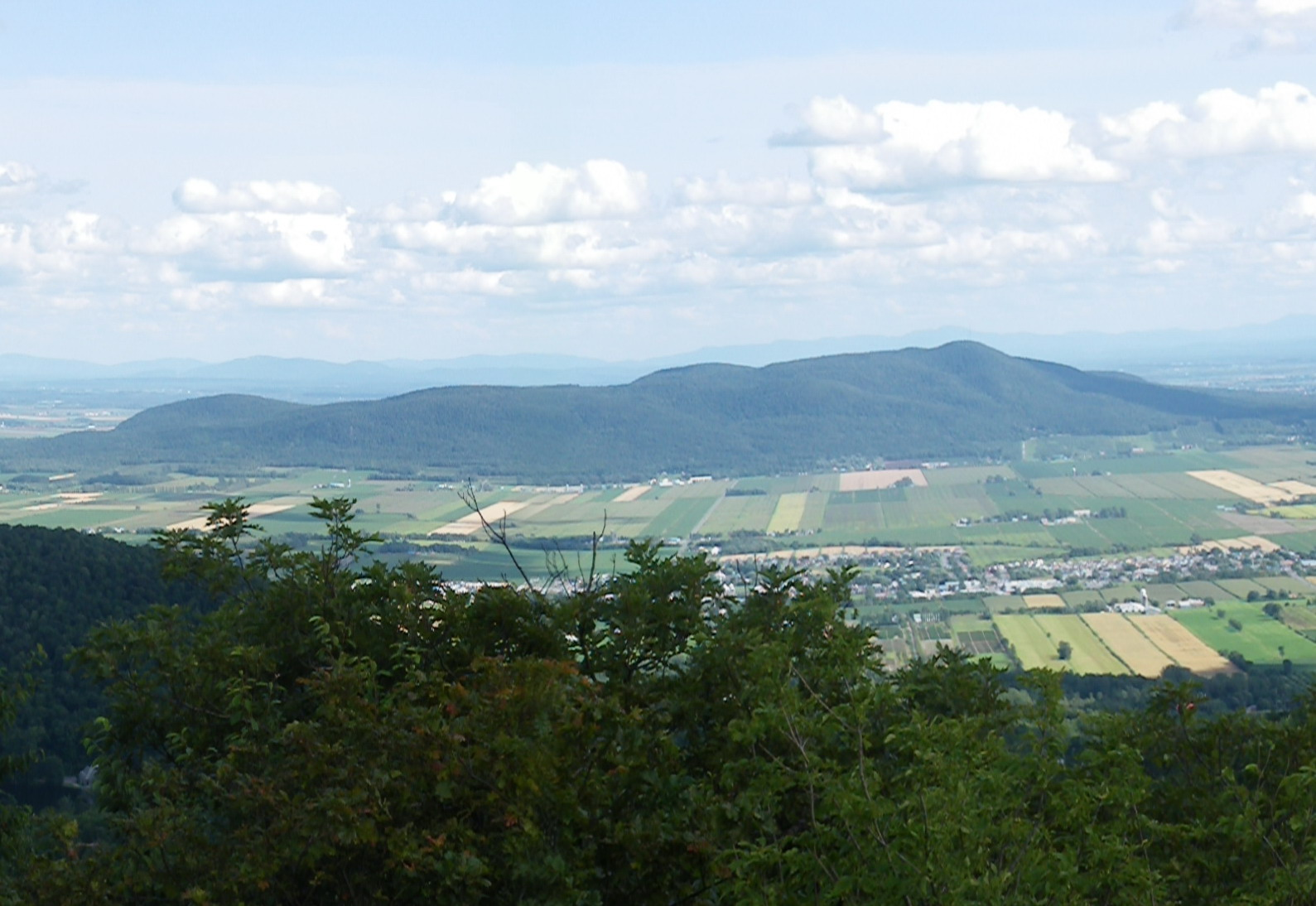 Mont Rougemont seen from Mont Saint-Hilaire